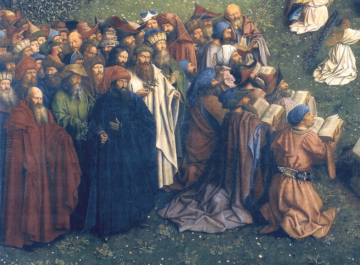 detail: Jews and heathens